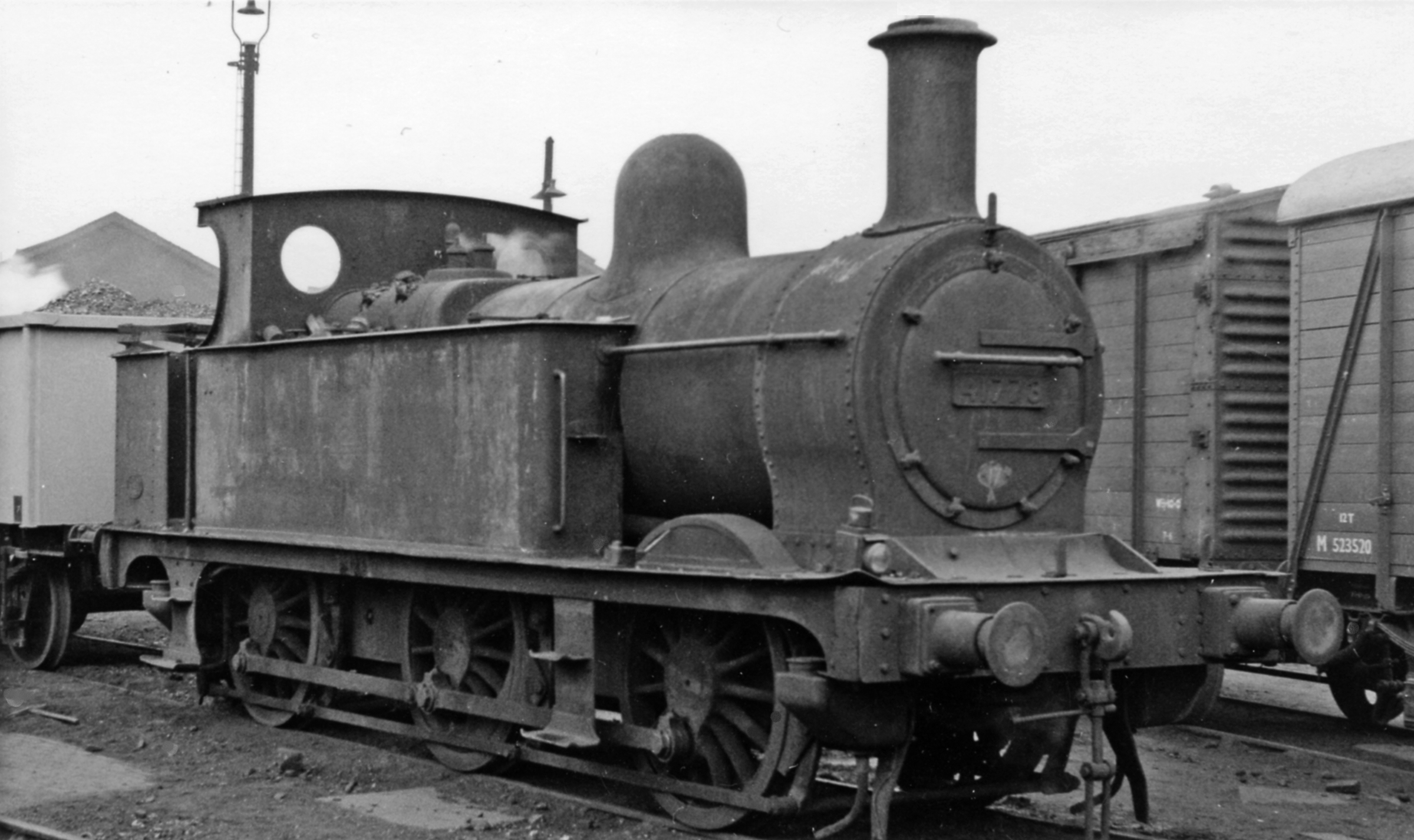 Condemned ex-Midland 1F 0-6-0T at Derby Locomotive Depot. No. 41773 is one of the 280 1F 0-6-0Ts of Johnson 1874 design, rebuilt by Fowler with Belpaire boiler but still retaining the minimal half-cab. Officially withdrawn in 7/60, here in April it is probably out of use already.